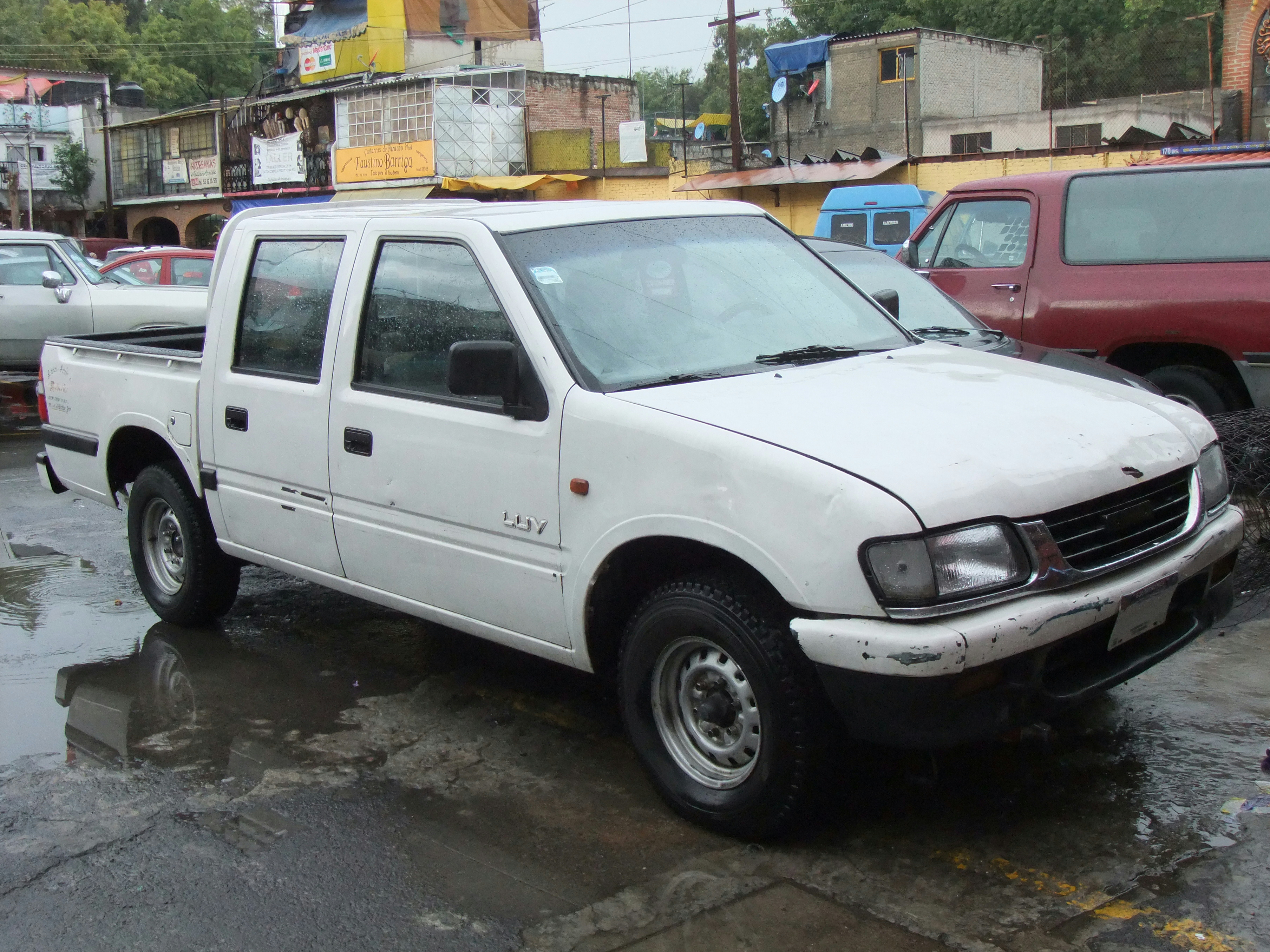 Chevrolet, Chevrolet LUV, Front, (at Mexico City)